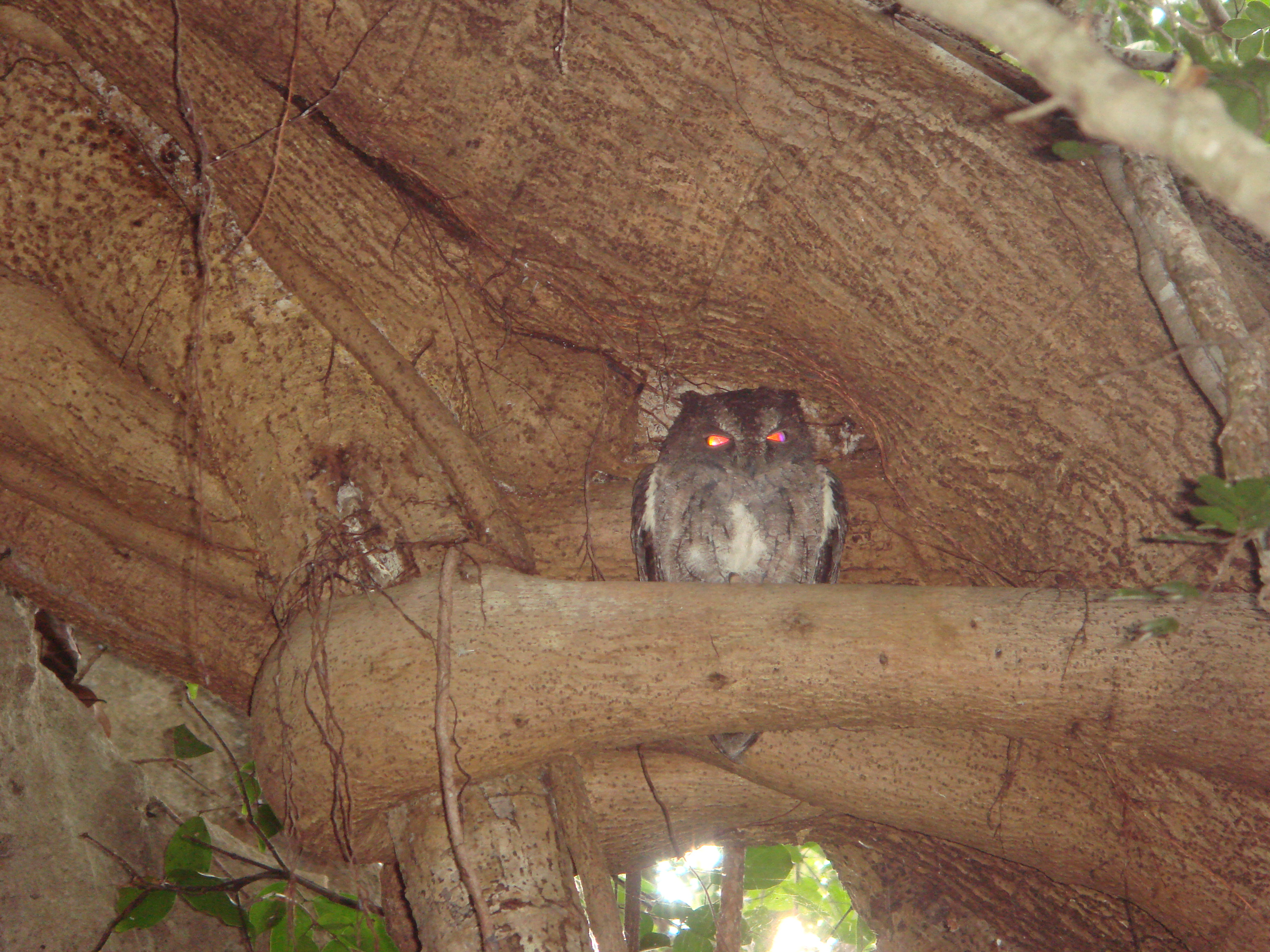 A Torotoroka Scops-owl (Otus madagascariensis), sleeping in the forest during daytime. Tsingy de Bemaraha Strict Nature Reserve, Madagascar